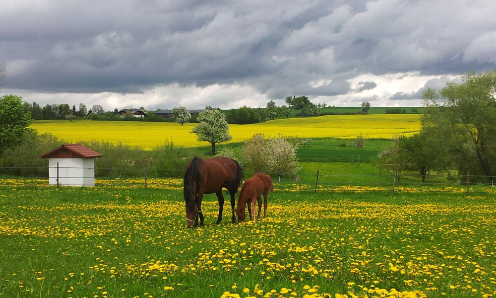 Landscape east Neuhausen, Germany